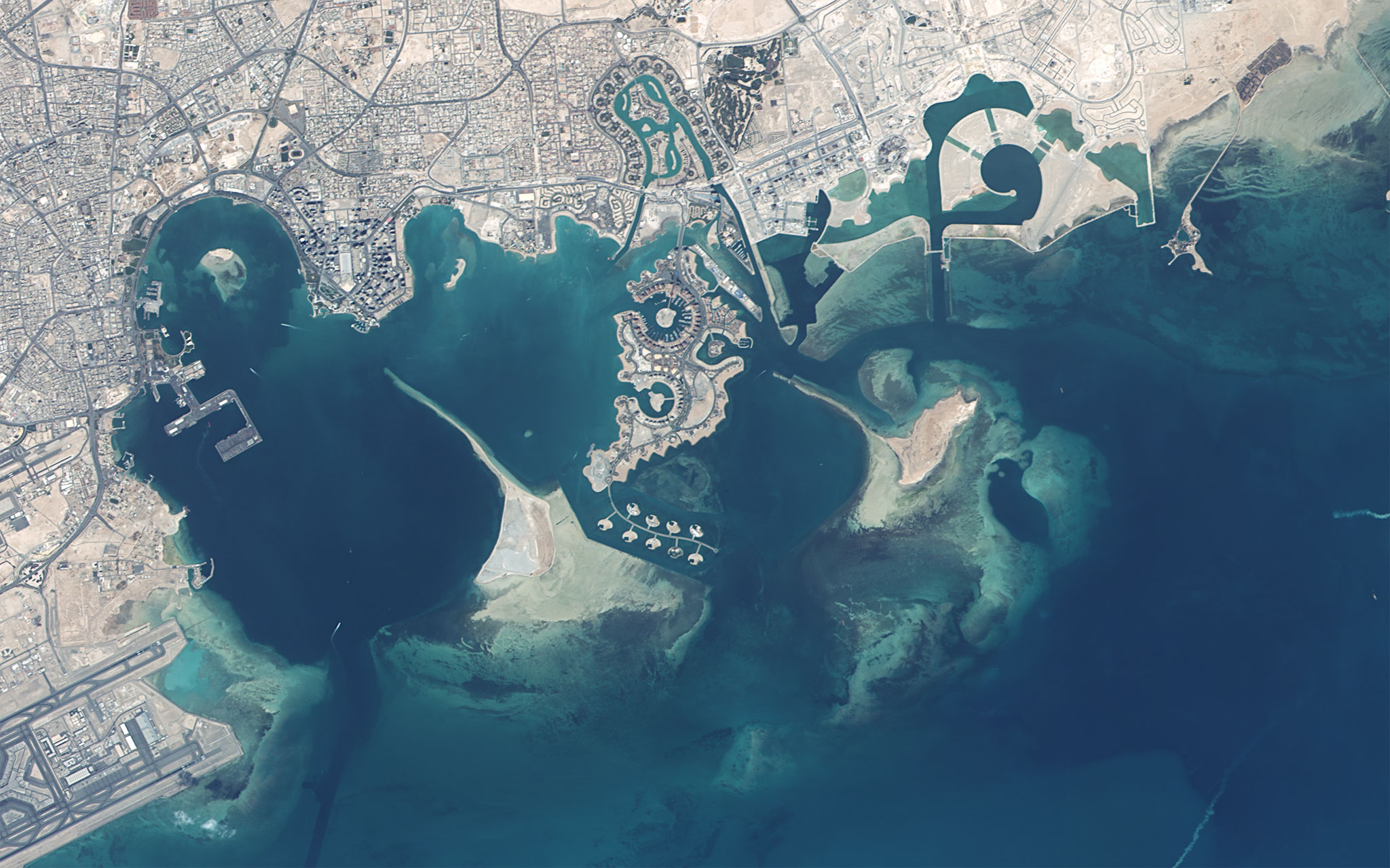 Doha, Qatar, as viewed from Hodoyoshi-1 satellite.